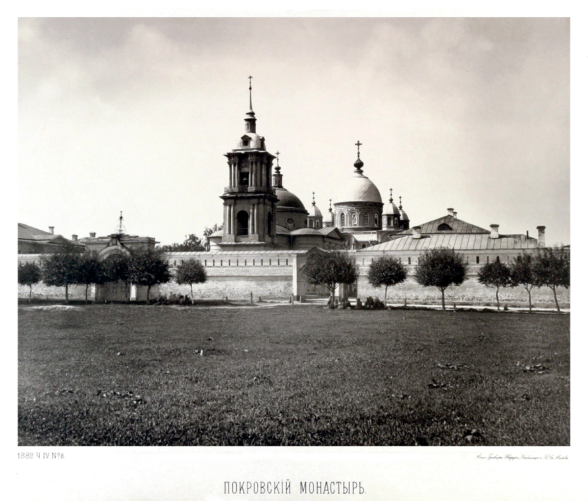 Pokrovsky Convent, Moscow.